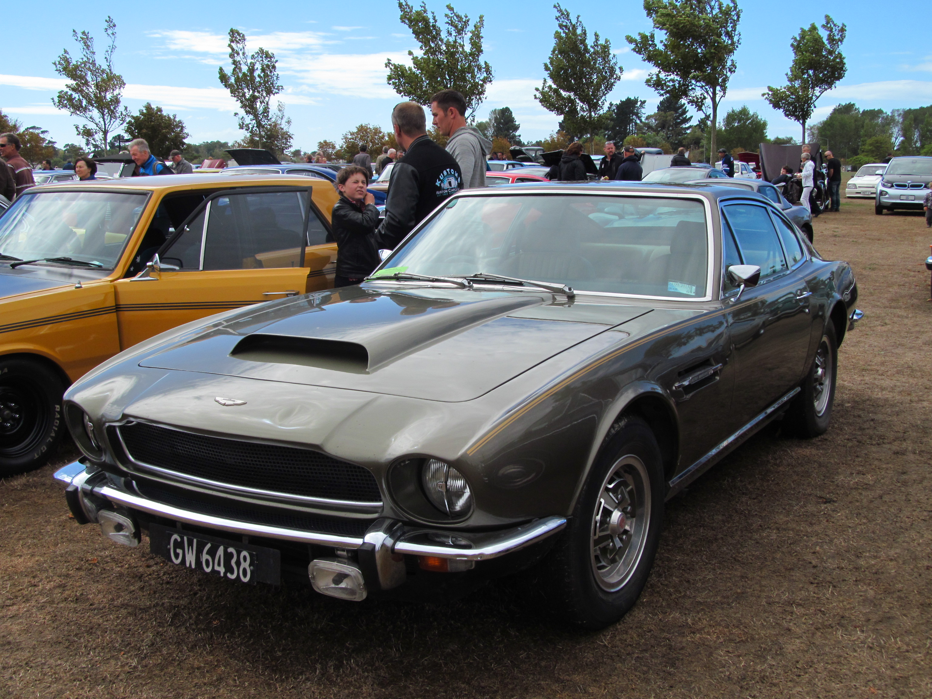 One of the stars of this show for me - a NZ new DBS, in stunning original condition. This would have cost whoever bought it new an absolute fortune to get it in New Zealand!